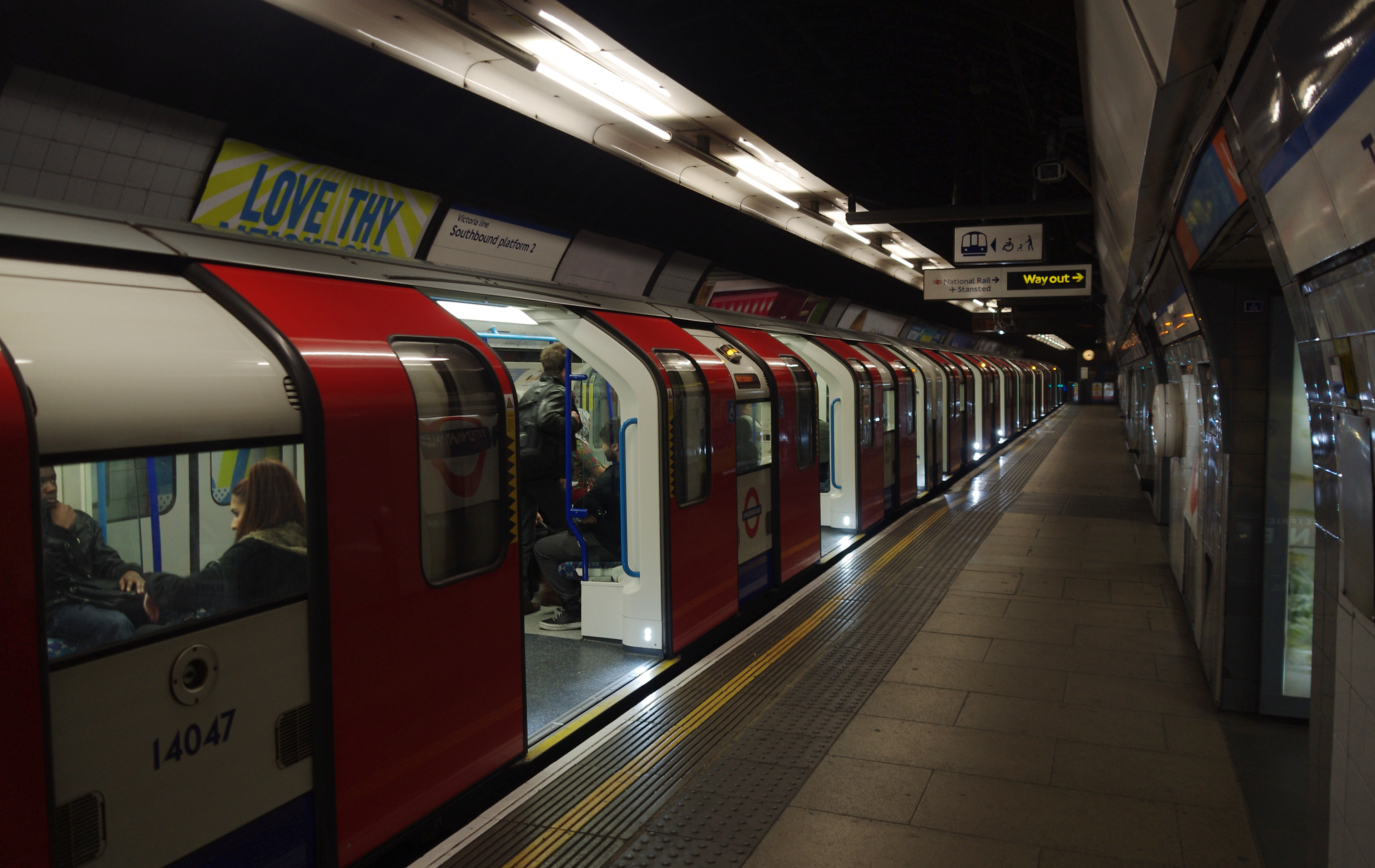 A southbound 2009 stock London Underground Victoria Line train at Tottenham Hale.